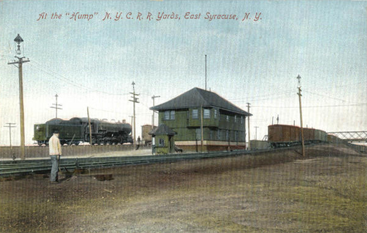 New York Central Railroad freight yard in East Syracuse, New York at the Hump - 1910